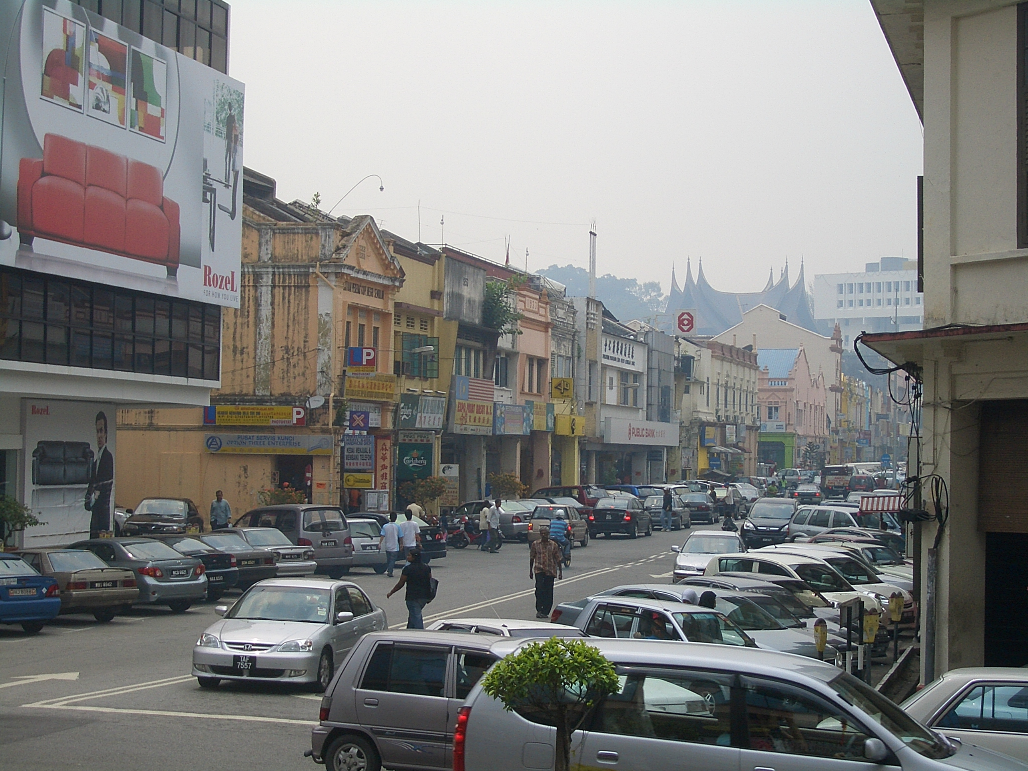 A commercial street in Seremban